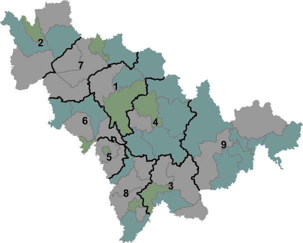 Map of prefectures of Jilin Province